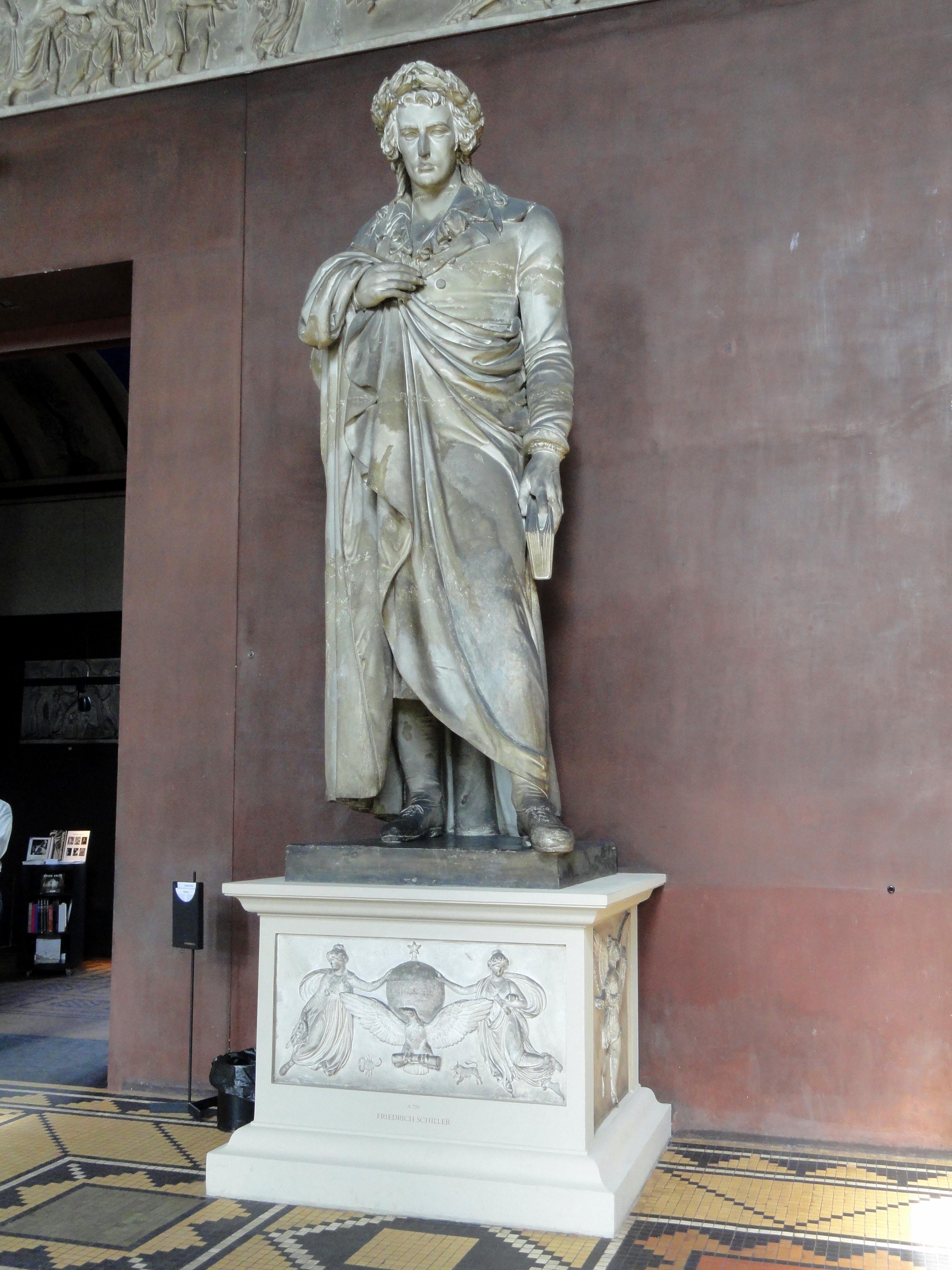 Sculpture in Thorvaldsens Museum, Copenhagen, Denmark. Sculptor: Bertel Thorvaldsen (c. 1770-1844). This artwork is now in the public domain because the artist died more than 70 years ago.